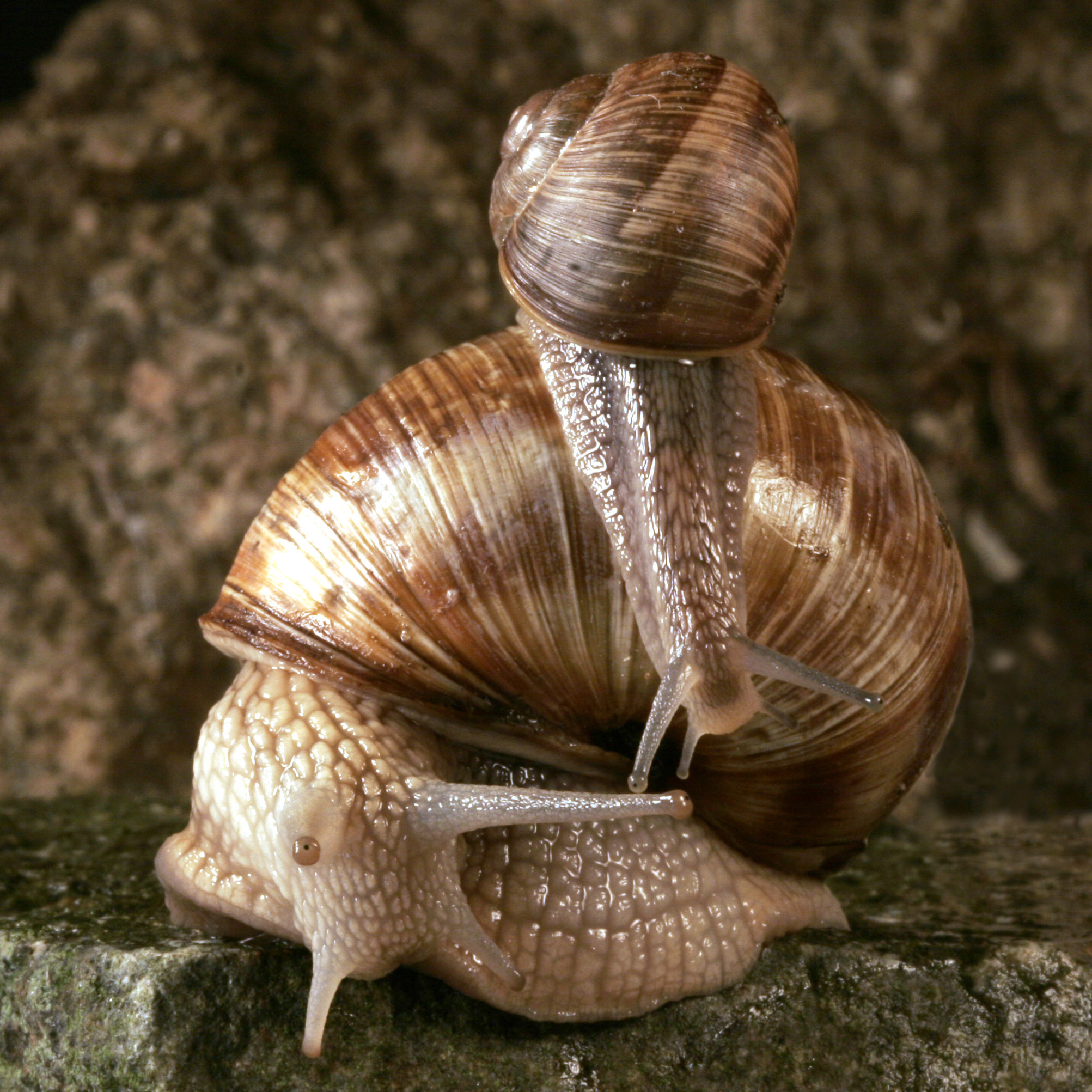 Helix pomatia. Adult with young snail.